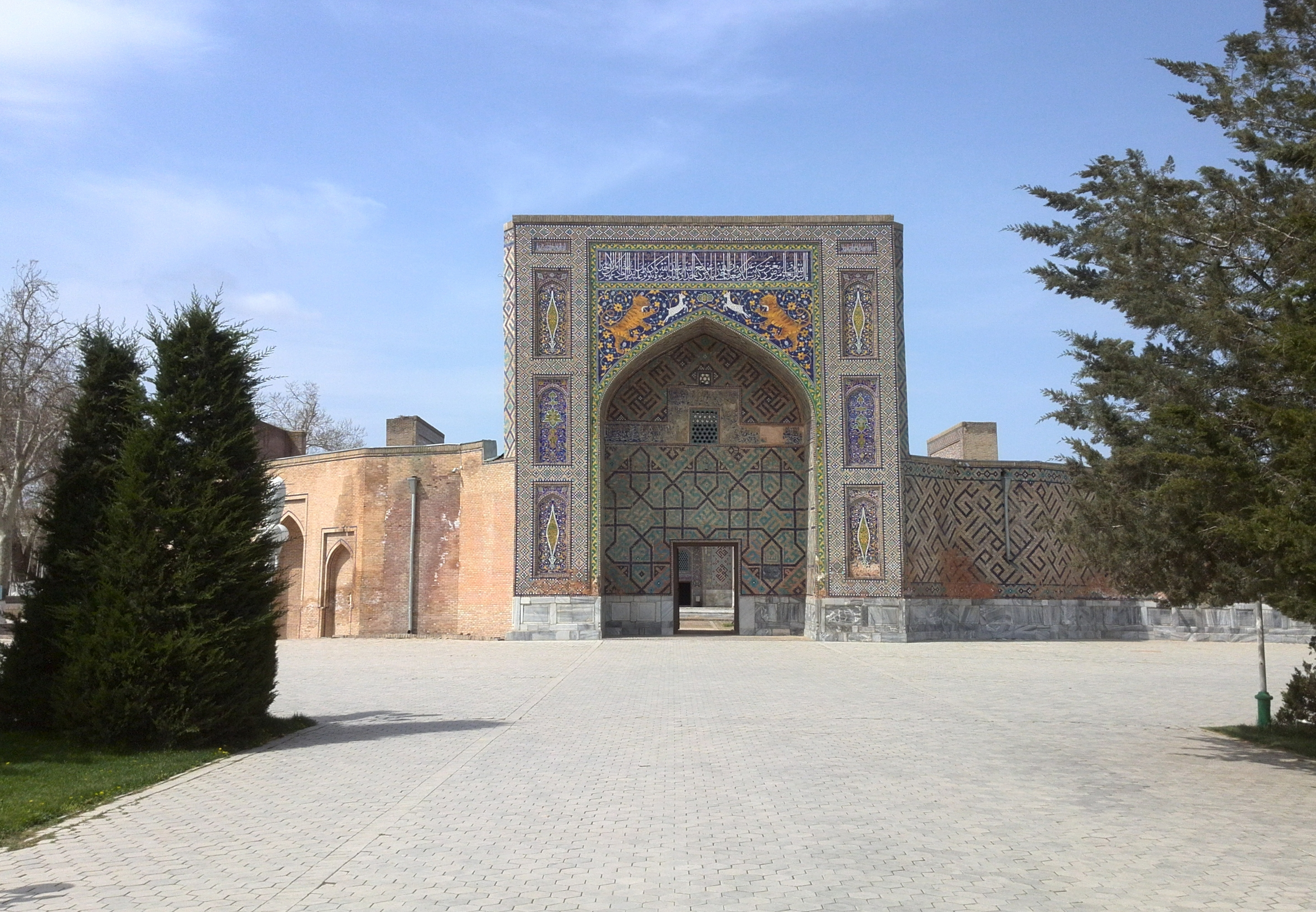 Madrasah Khoja Ahrar